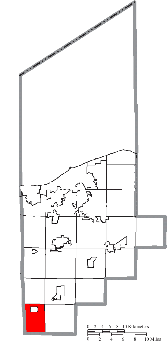 Map of the municipal and township boundaries of Lorain County, Ohio, United States, as of the 2000 census, with the location of Rochester Township highlighted. Township borders are shown only in unincorporated areas in order to differentiate incorporated and unincorporated areas more clearly.